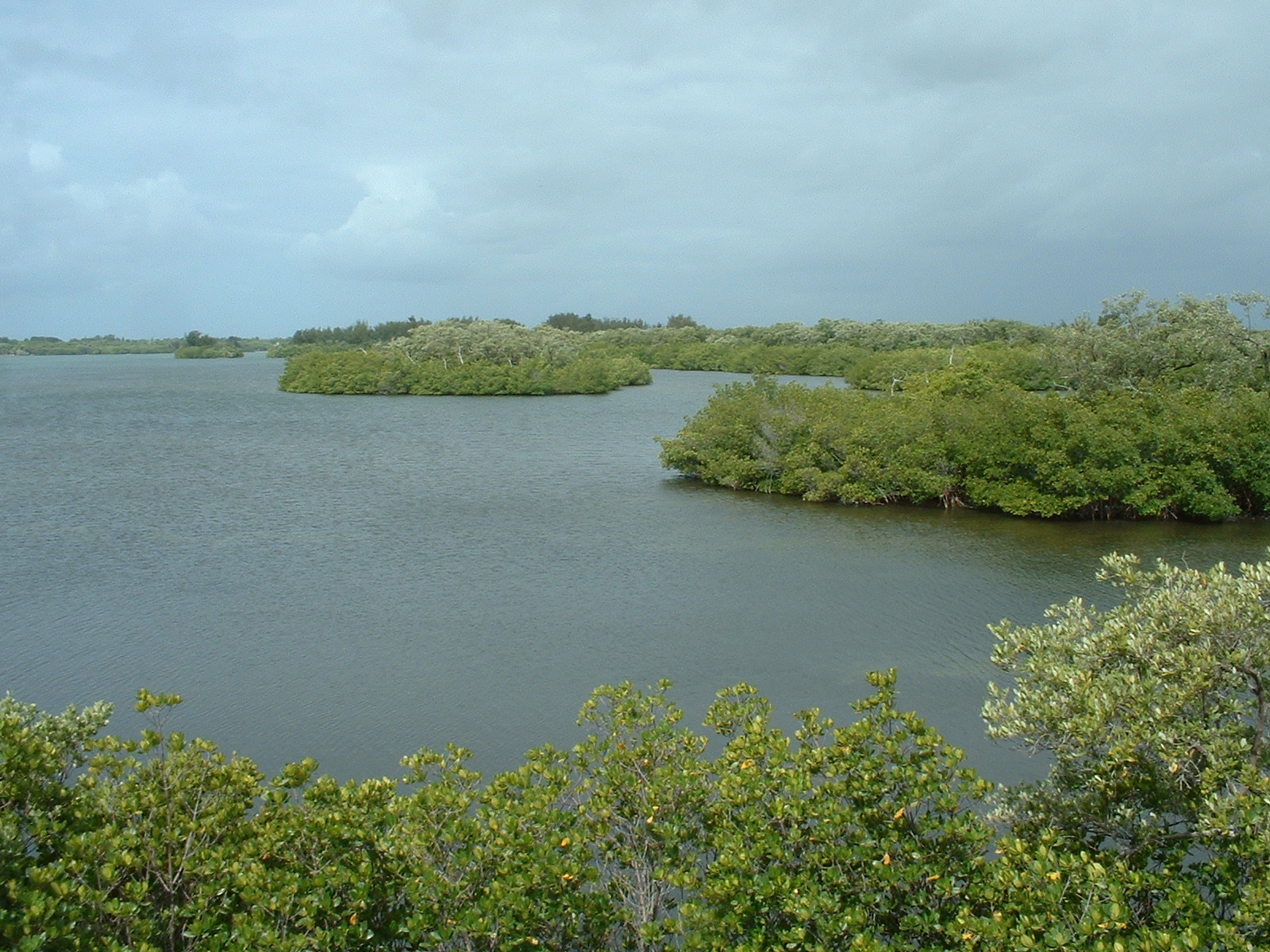 Indian River shore of Sebastian Inlet State Park, Florida